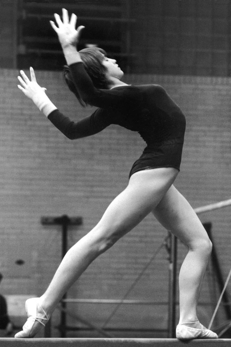 Romanian gymnast Nadia Comaneci during her practice session for an appearance at the Hartford Civic Center.